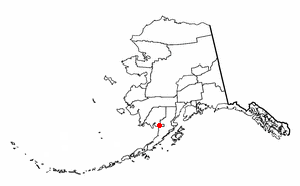 Adapted from Wikipedia's AK borough maps by Seth Ilys.